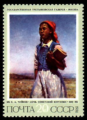 RUSSIA - CIRCA 1974: A stamp printed in RUSSIA shows a painting by the artist Chuykov "Daughter of Soviet Kirgizia", circa 1974.